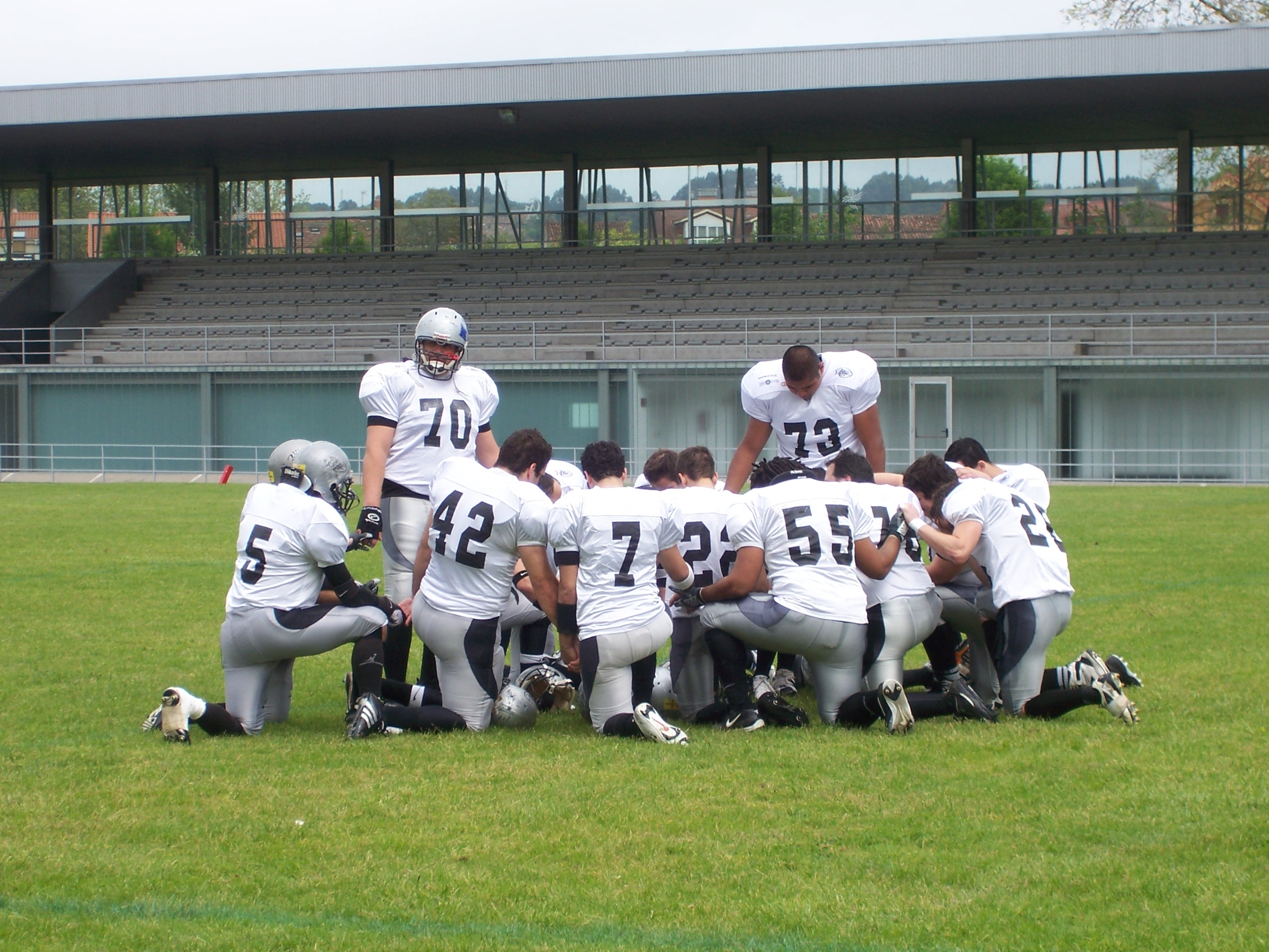 Badalona Dracs before the game. May 9, 2009.